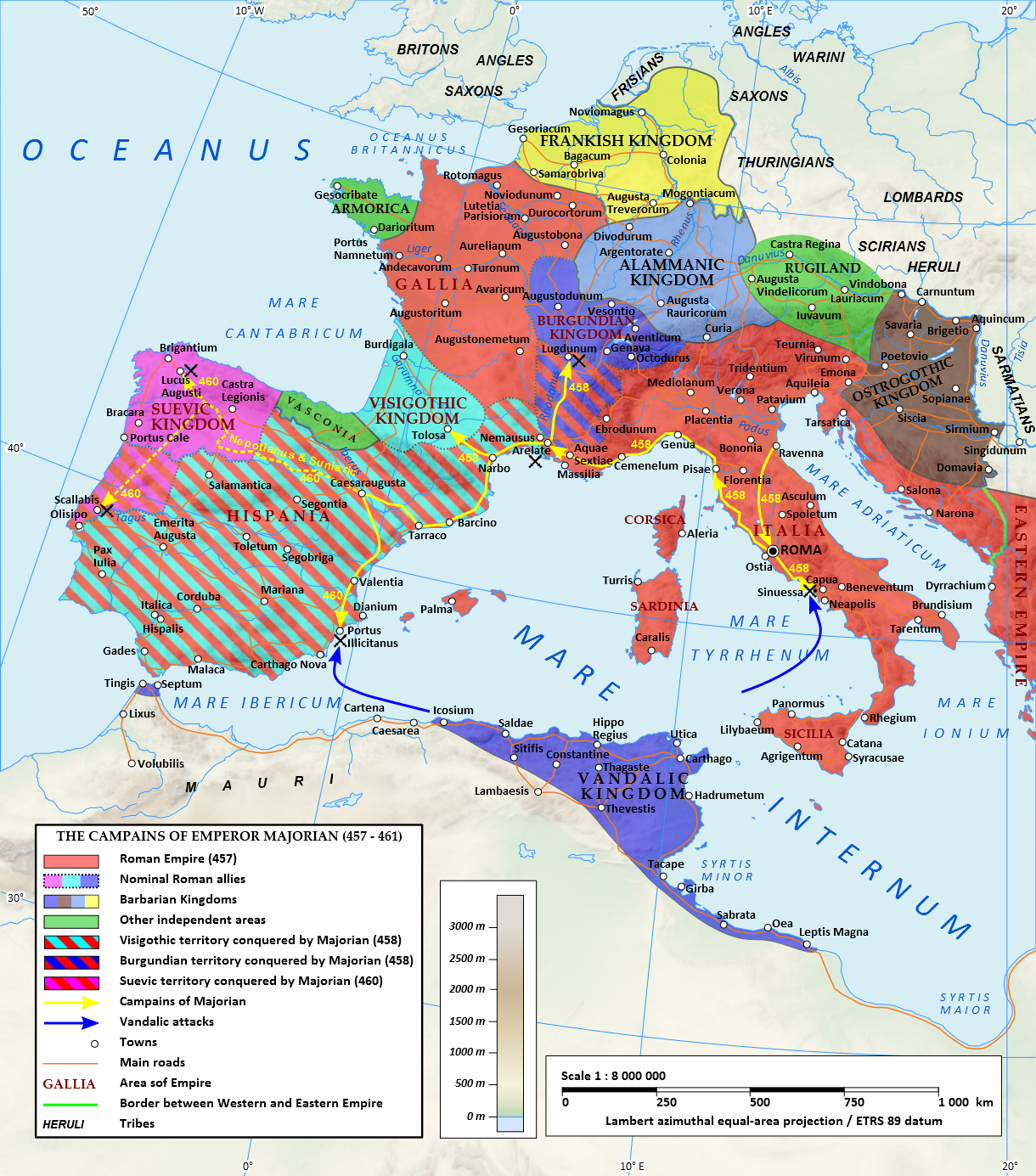 Western Roman Empire under Majorian (460 CE)